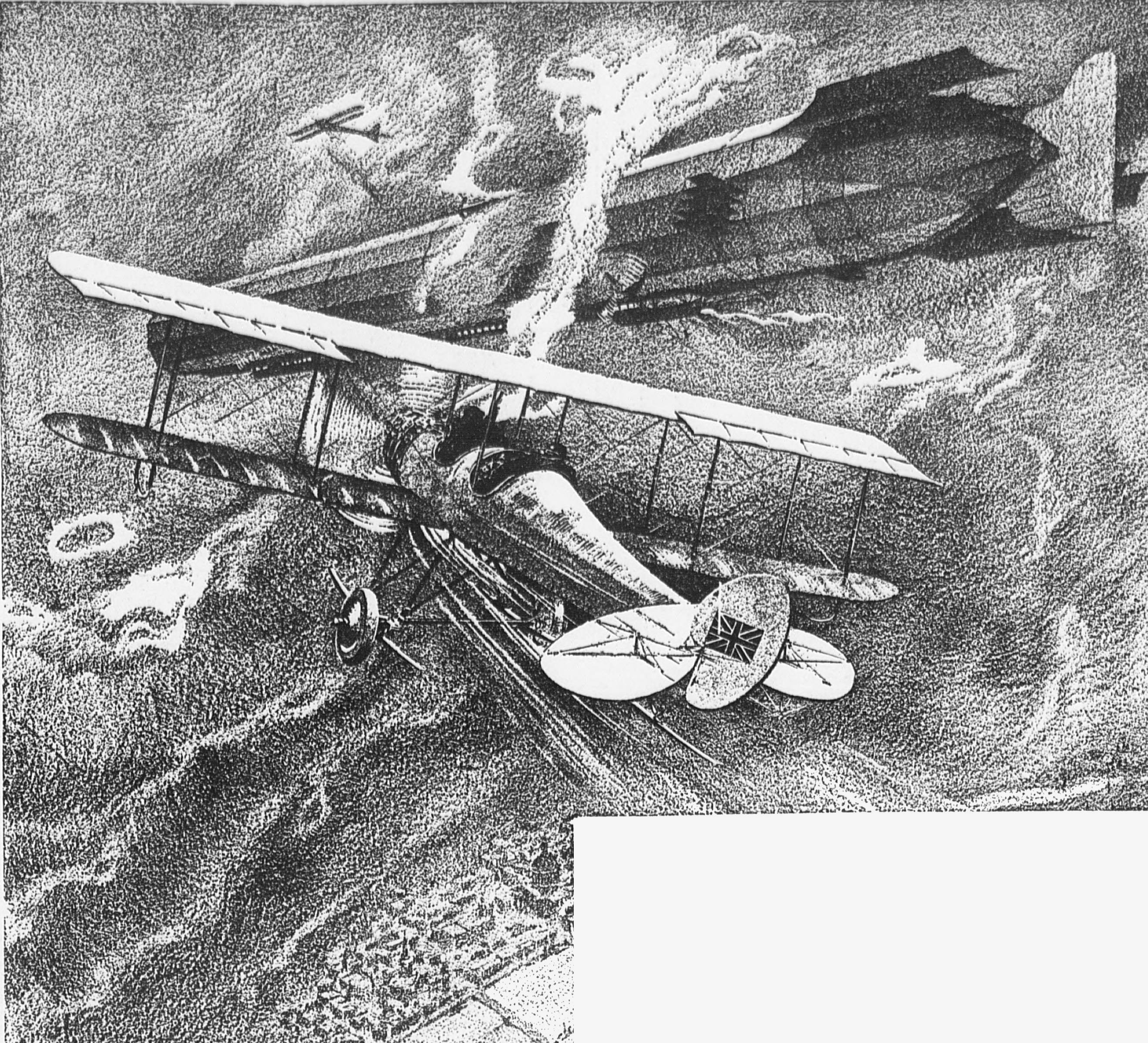 This was Imperial German Army Zeppelin LZ 39 under attack, on its way home from an abortive raid on Calais. Flight Commander Bigsworth managed to drop bombs on Zepp and damage it.